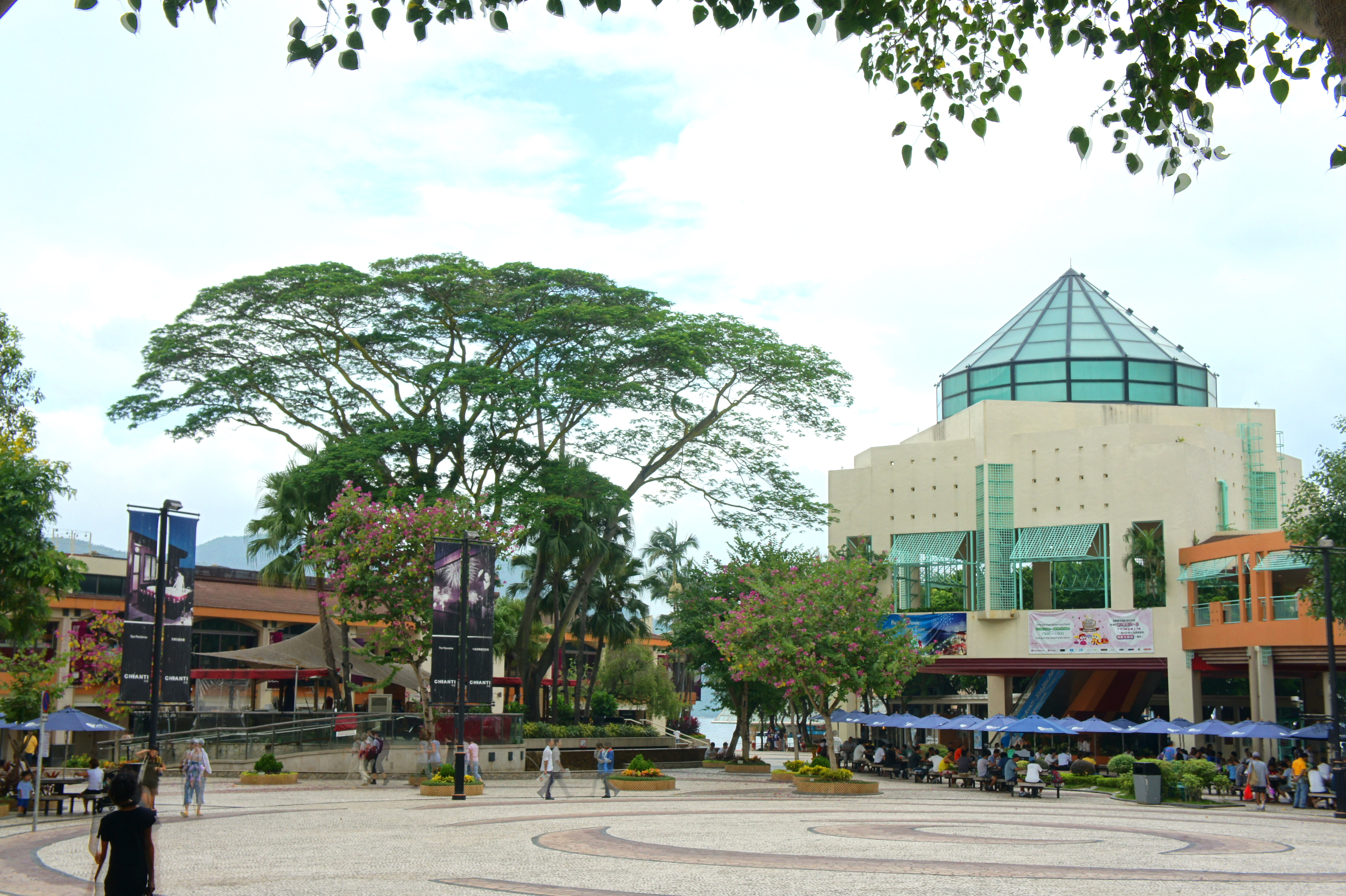 Discovery Bay Plaza, Lantau Island, Hong Kong.